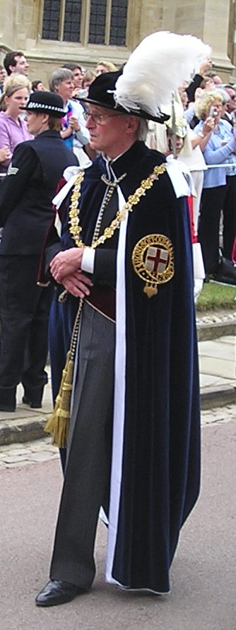 Lord Bingham of Cornhill wearing his robes as a Knight Companion of the Order of the Garter, in procession to St George's Chapel, Windsor Castle for the annual service of the Order of the Garter.